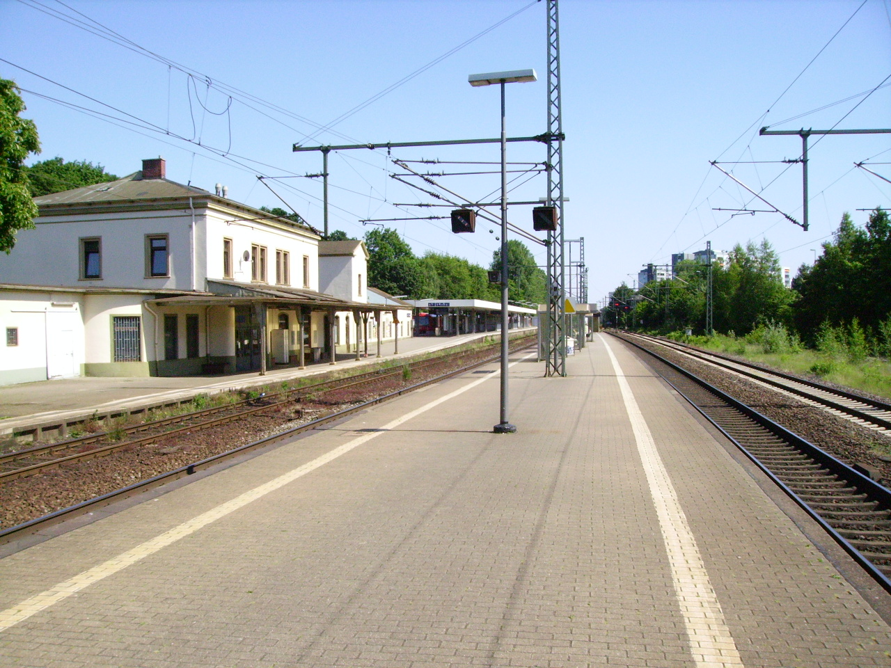 Pinneberg railway station, tracks 5 to 1 from right to left (2008)